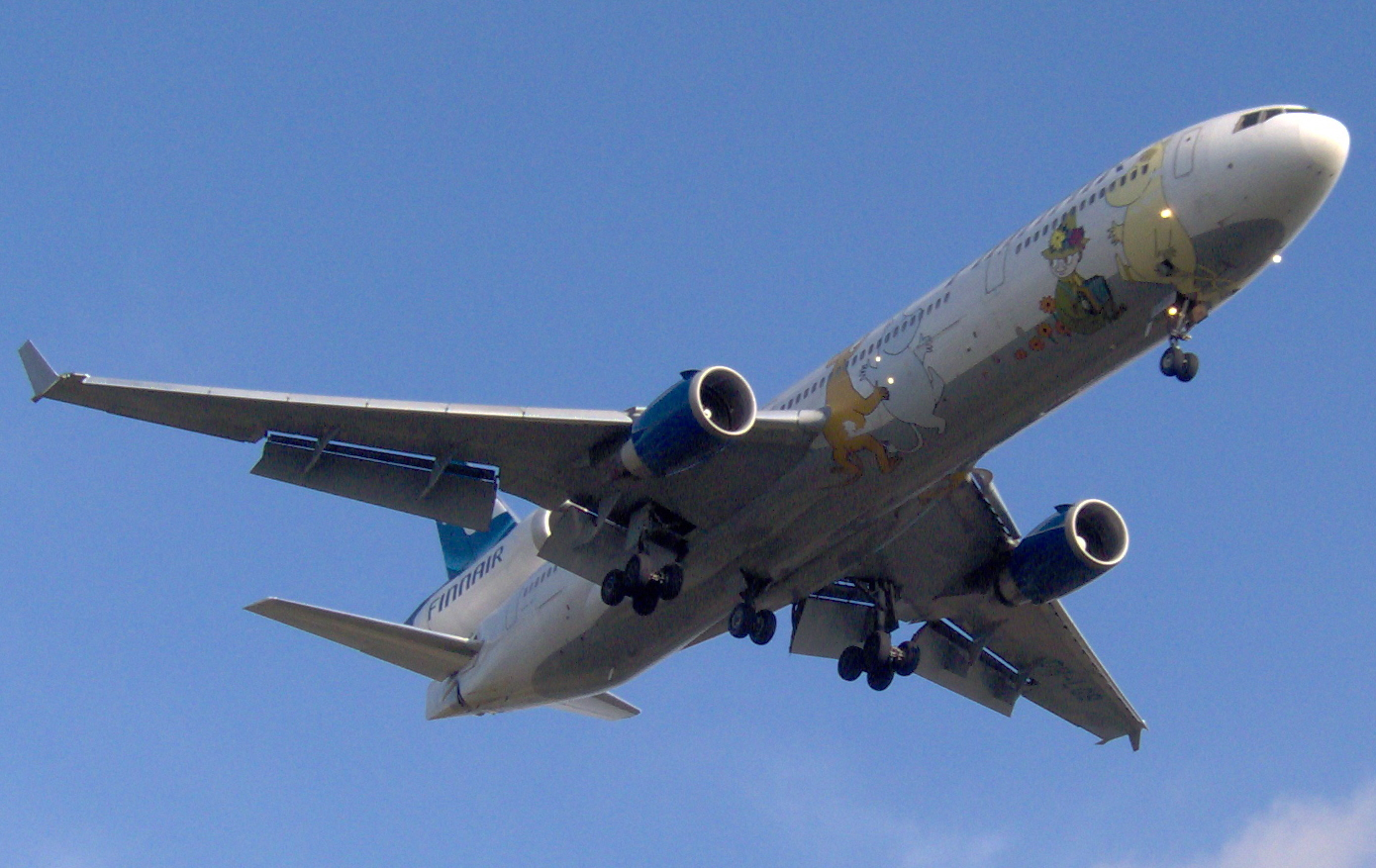 Finnair MD-11 landing to Helsinki-Vantaa airport